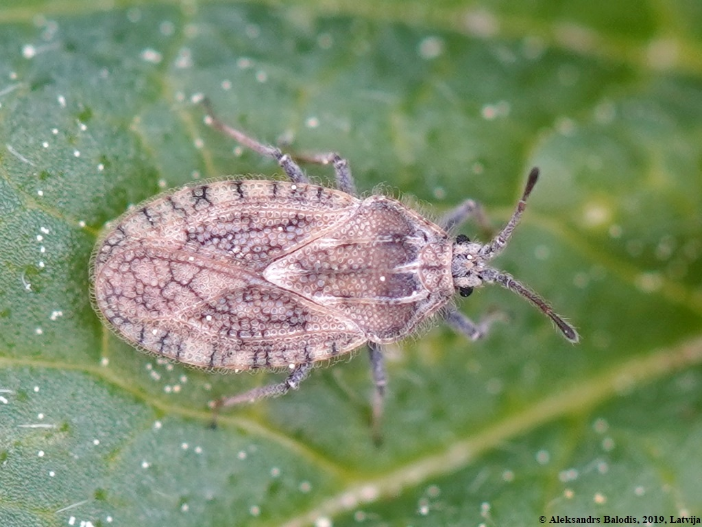 Tingis pilosa